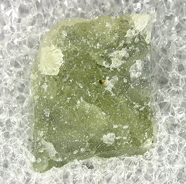 Greenockite, Chalcopyrite, Prehnite Locality: Houdaille Quarry (Summit Quarry; Commonwealth Quarry), Springfield, Union County, New Jersey, USA (Locality at ) Size: 1.6 x 1.4 x 0.5 cm. Greenockite is a rather rare species, considering it has a very simple chemistry (Cadmium Sulfide). There are only a handful of localities in the world for fine crystallized Greenockite specimens, and the Summit Quarry in New Jersey is possibly the best U.S. locality for the species (certainly the best in New Jersey). This locality opened in the early 20th Century, and produced a large number of Zeolites species and other associated minerals in its history. It is now long gone, but thanks to collectors like Richard Kosnar, many good specimens now survive from this historic Quarry. This specimen was collected by Richard Kosnar in 1964 when he had just graduated from high school. He had almost exclusive access to the quarry at the time, and was able to collect some very unique and interesting Greenockite specimens over several years time. As a matter of fact, Richard Kosnar most likely collected more Greenockite specimens from New Jersey than any other collector, even many collectors combined. This piece is mounted in a perky box, and upon close examination, one can see a small honey colored "beehive"-shaped Greenockite crystal in the center of the specimen which has a small crystal of Chalcopyrite at the base. The crystals are sitting on a beautifully contrasting green Prehnite matrix. This specimen is nearly 50 years old. Ex. Richard Kosnar Collection.